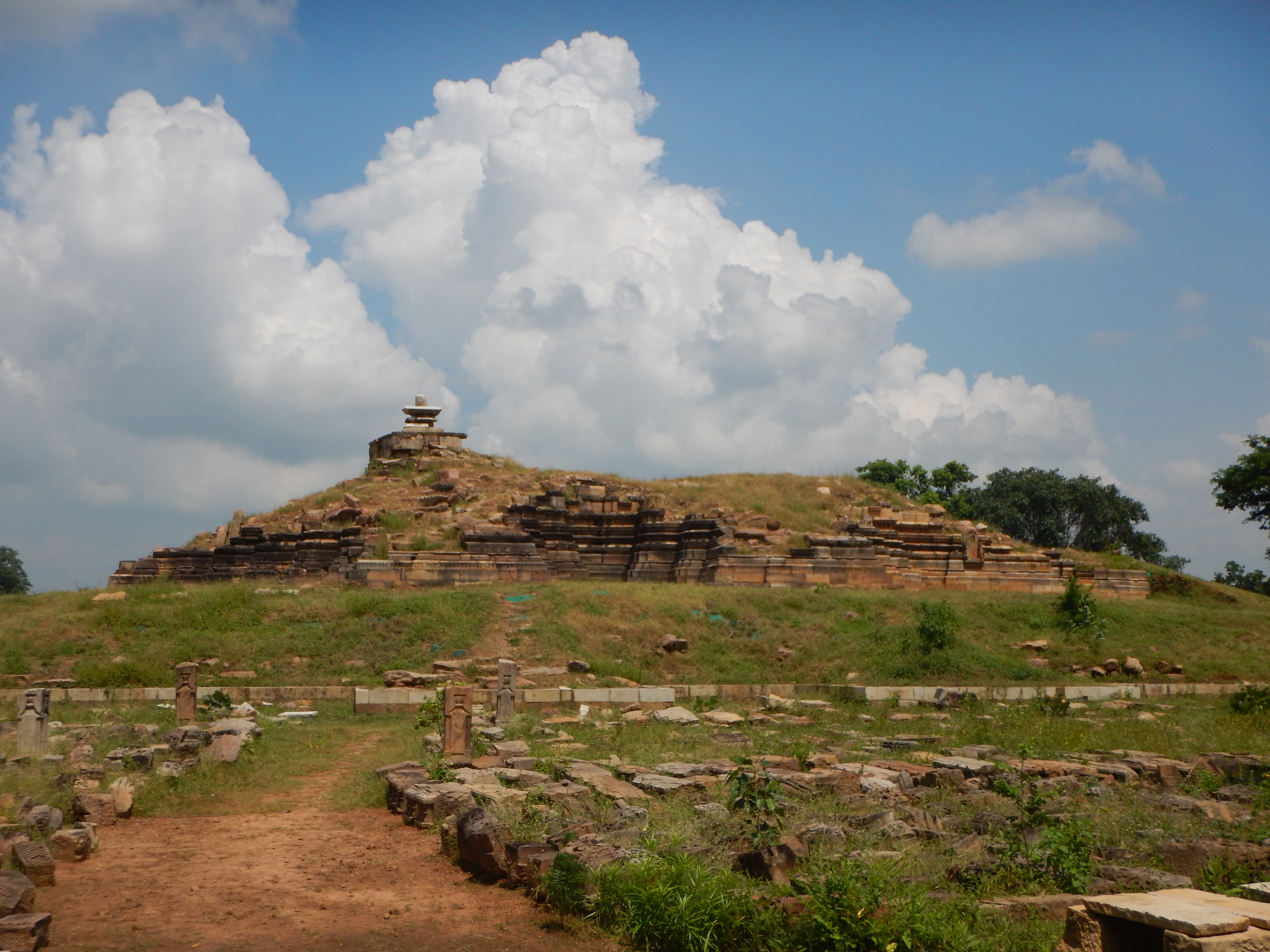 Beejamandal Temple, Eastern Group of Temples, Khajuraho, Chhatarpur Dist, Madhya Pradesh